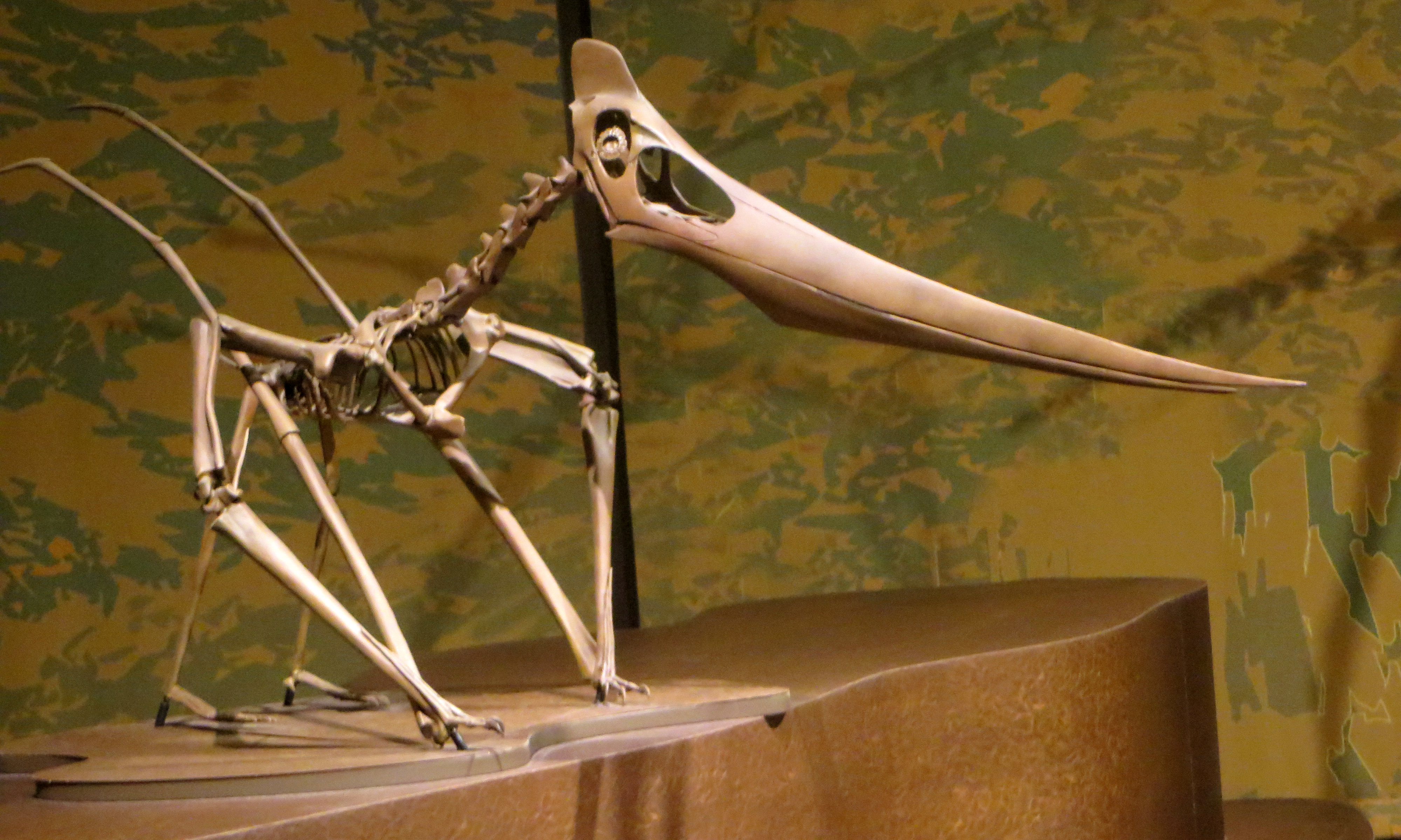 Flying reptile of the Mesozoic.